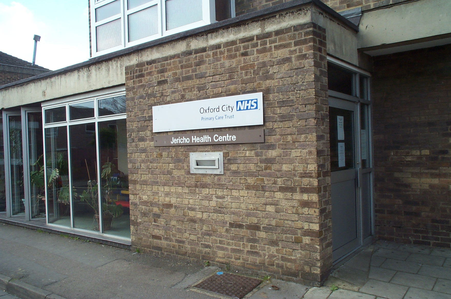 The Jericho Health Centre, Oxford, run by an NHS Trust, 2005-03-26. Copyright © 2005 Kaihsu Tai